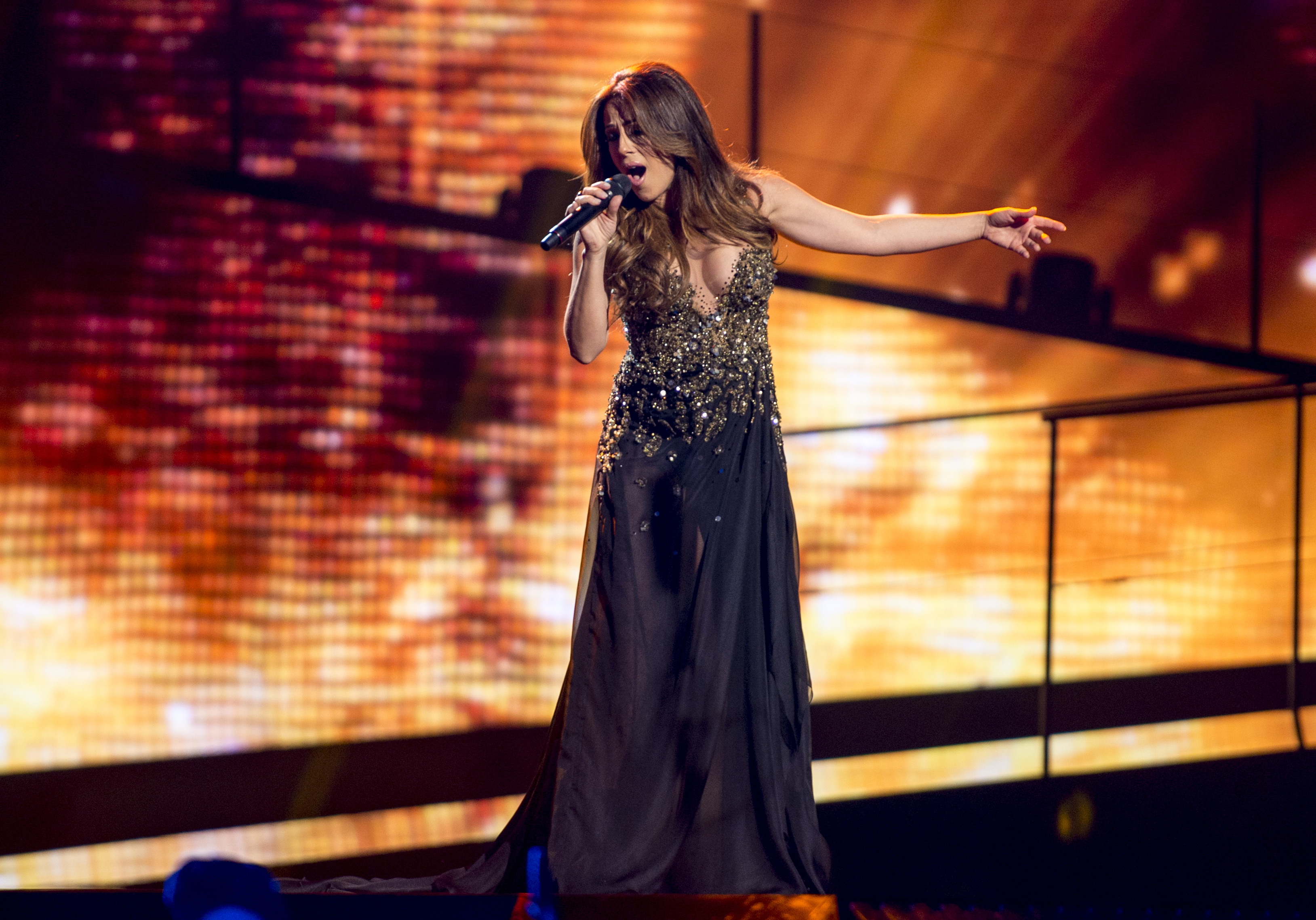 Ira Losco representing Malta with the song "Walk on Water" during a rehearsal before the first semi final of the Eurovision Song Contest 2016 in Stockholm. (Help translate this text)